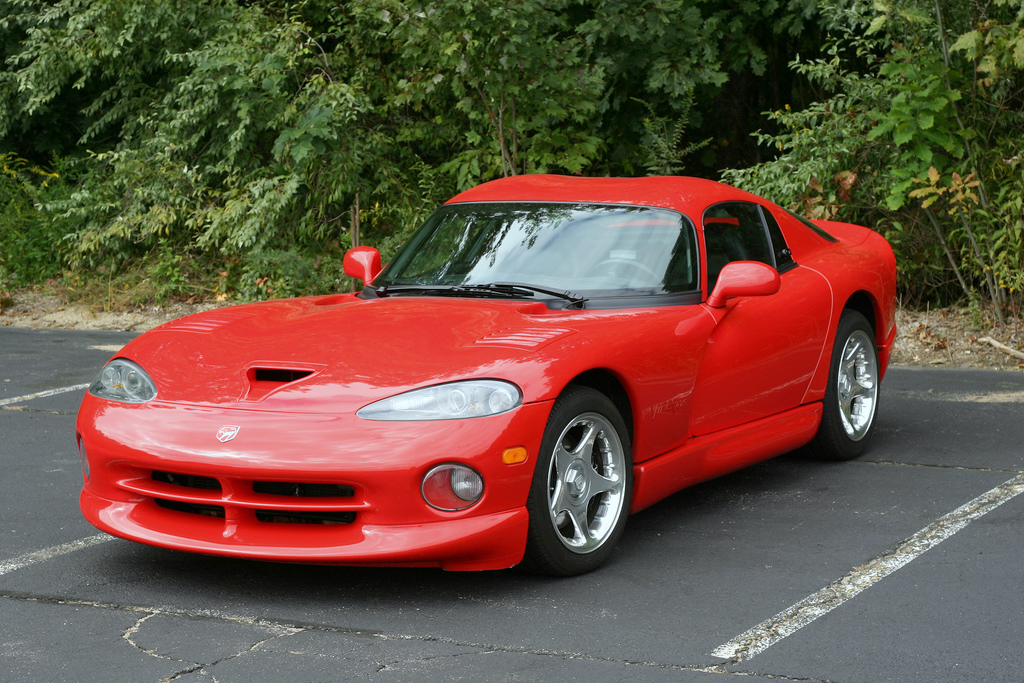 Author - "grendelkhan". URL - Licence - CC:BY.SA. I have made minimal touch-ups. NineKnuckles (talk) 19:31, 21 January 2008 (UTC)